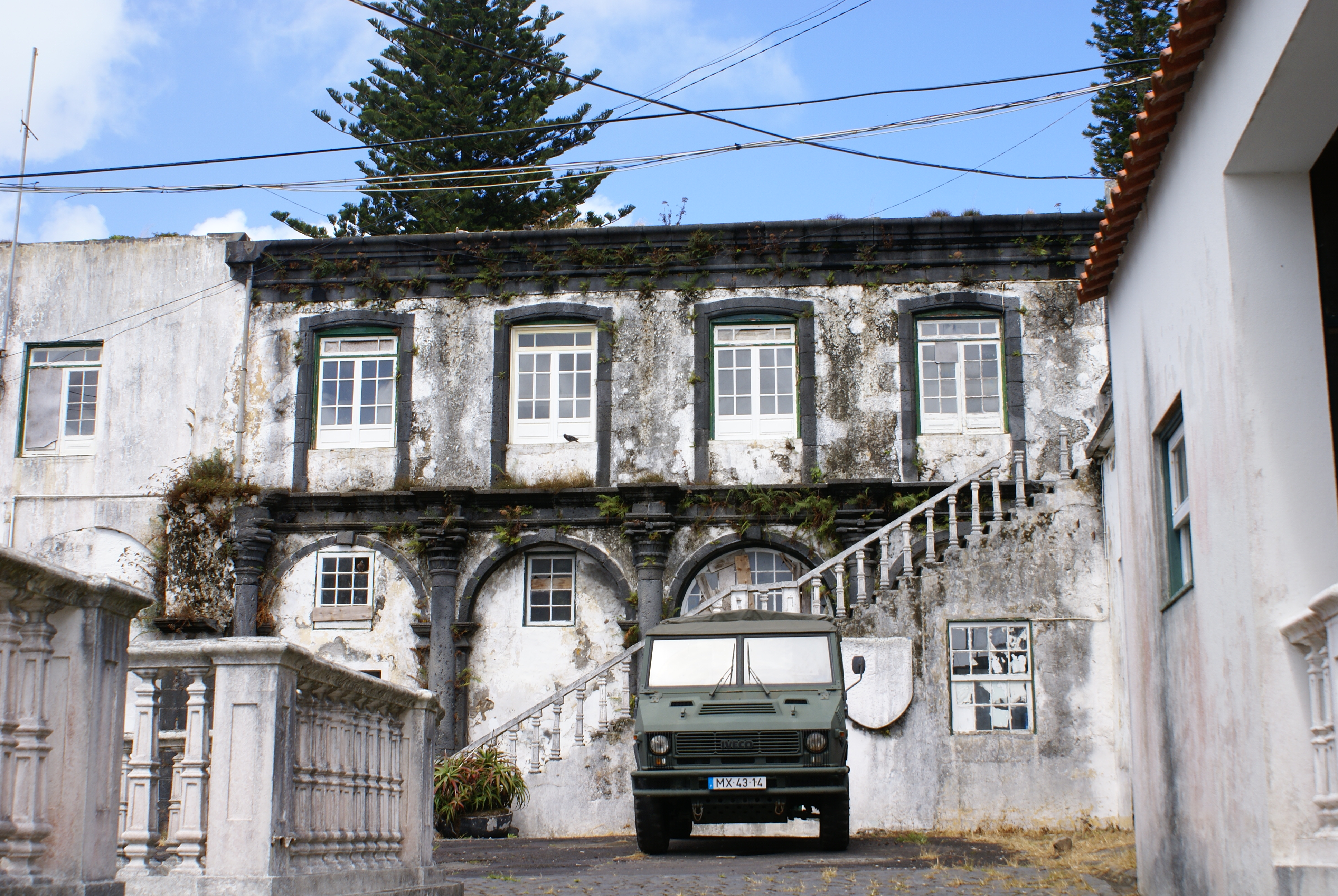 The annex to the Church of Nossa Senhora do Carmo, and older Convent of Carmo, used now for storage by the Portuguese military (partial view), Matriz, Horta, Faial (Azores), Portugal